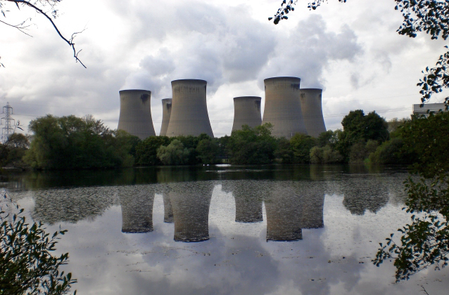 Drax Power Station The Old railway cutting